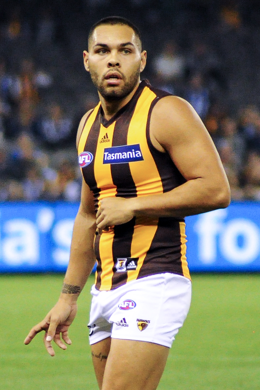 Jarman Impey during the AFL round five match between North Melbourne and Hawthorn on Sunday, 22 April 2018 at Etihad Stadium in Melbourne, Victoria.